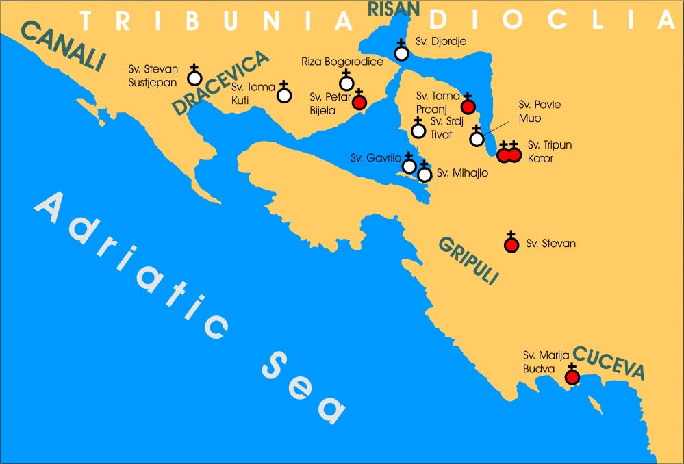 Border area Duklja and Travunija in the Bay of Kotor and churches from the ninth (red) and X-XI century (white) .